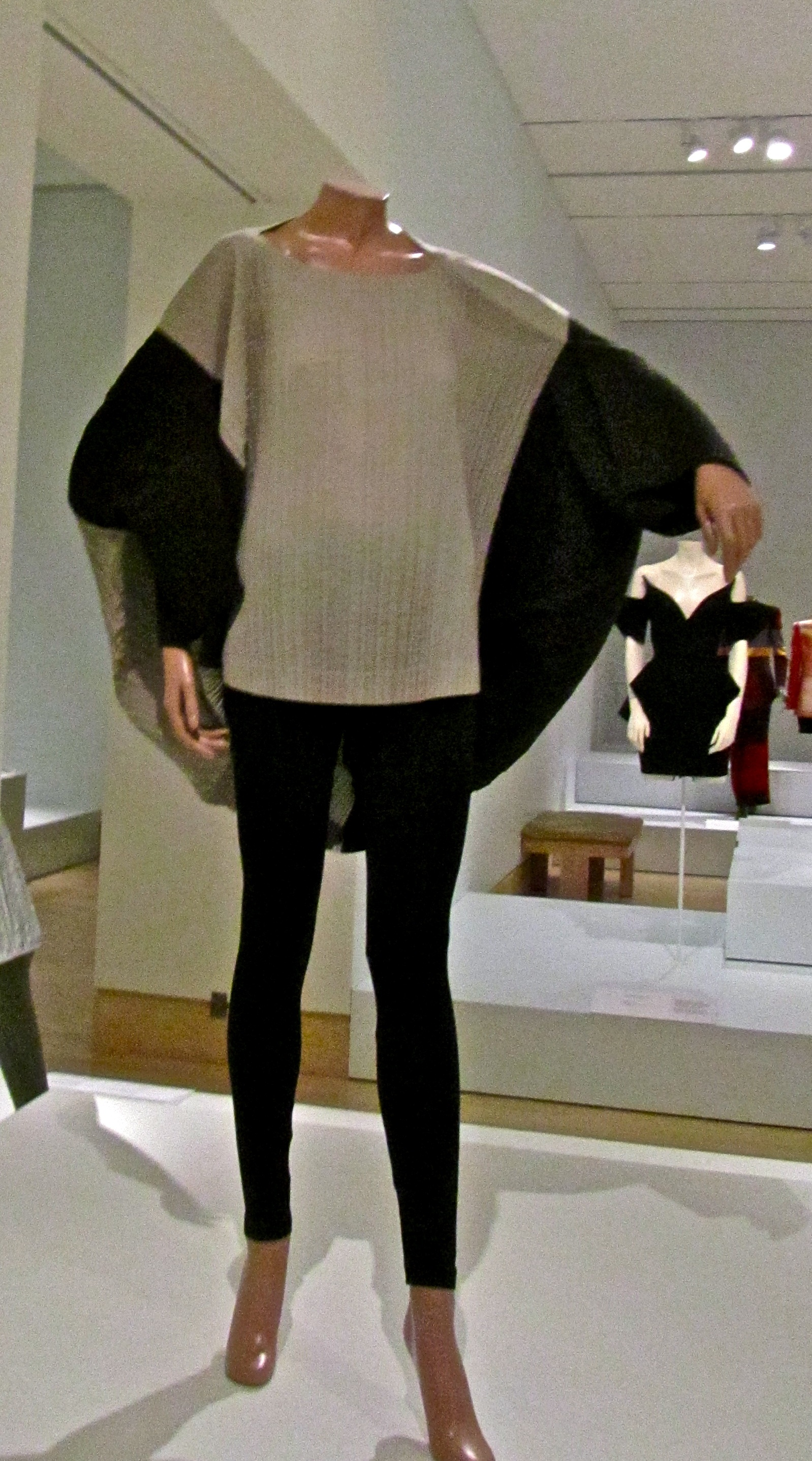 Issey Miyake design from the Rhythm Pleats collection of 1990; polyester, pleated, and heat and pressure set